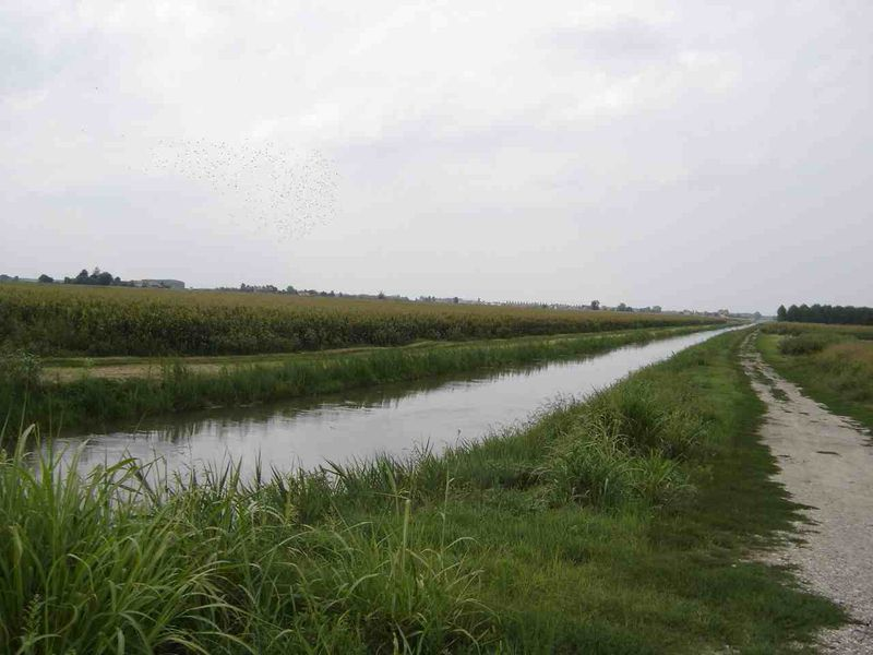 see same name image file